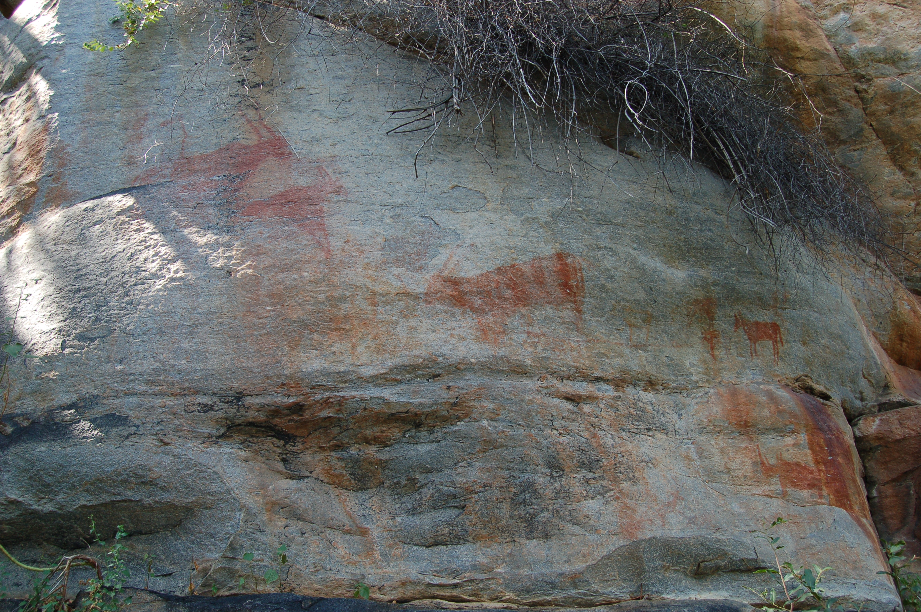 Rock paintings in Tsodilo Hills, Botswana